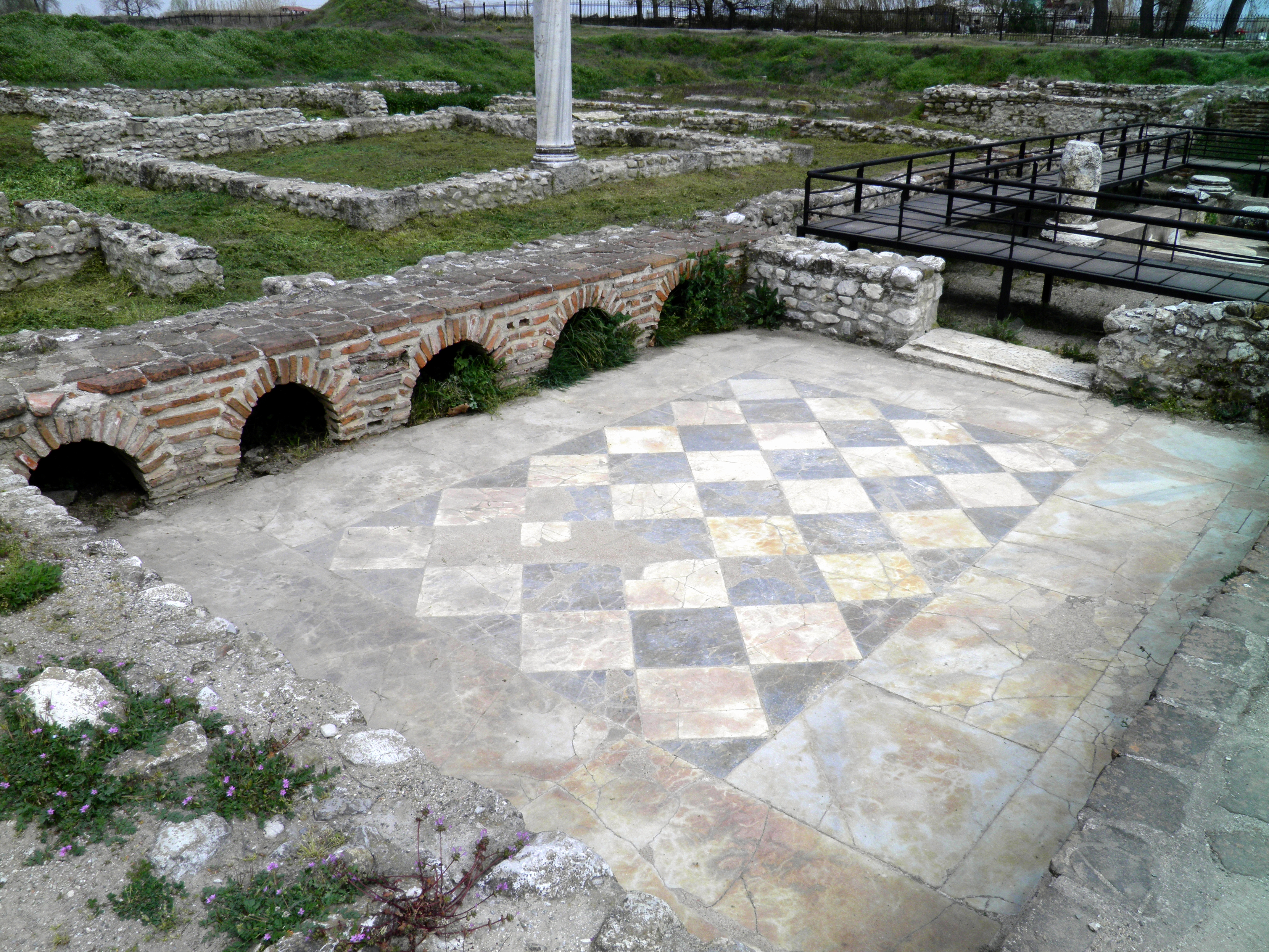 The 'Dionysus Villa', which dates from the second half of the 2nd century AD, is actually a complex of buildings, with luxurious living quarters built around four atriums and a tetrastyle courtyard, a shrine of Dionysus, a bathhouse and shops. The excavations brought to light a wealth of sculptures and pieces of the costly furniture that once stood in the formal reception rooms. The floor mosaic in the banqueting room, depicting a triumphal epiphany of Dionysus copied from a Hellenistic painting, is exceptionally fine.